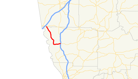 Map of Georgia State Route 103